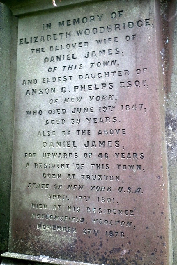 Daniel and Elizabeth James gravestone taken in West Dean, West Sussex, UK. The inscription reads: IN MEMORY OF ELIZABETH WOODBRIDGE, THE BELOVED WIFE OF DANIEL JAMES, OF THIS TOWN, AND ELDEST DAUGHTER OF ANSON C. PHELPS ESQR, OF NEW YORK, WHO DIED JUNE 18TH, 1847, AGED 39 YEARS. ALSO OF THE ABOVE DANIEL JAMES, FOR UPDWARDS OF 46 YEARS A RESIDENT OF THIS TOWN, BORN AT TRUXTON, STATE OF NEW YORK, U.S.A. APRIL 17, 1801, DIED AT HIS RESIDENCE BEACONSFIELD, WOOLTON, NOVEMBER 27TH, 1876.